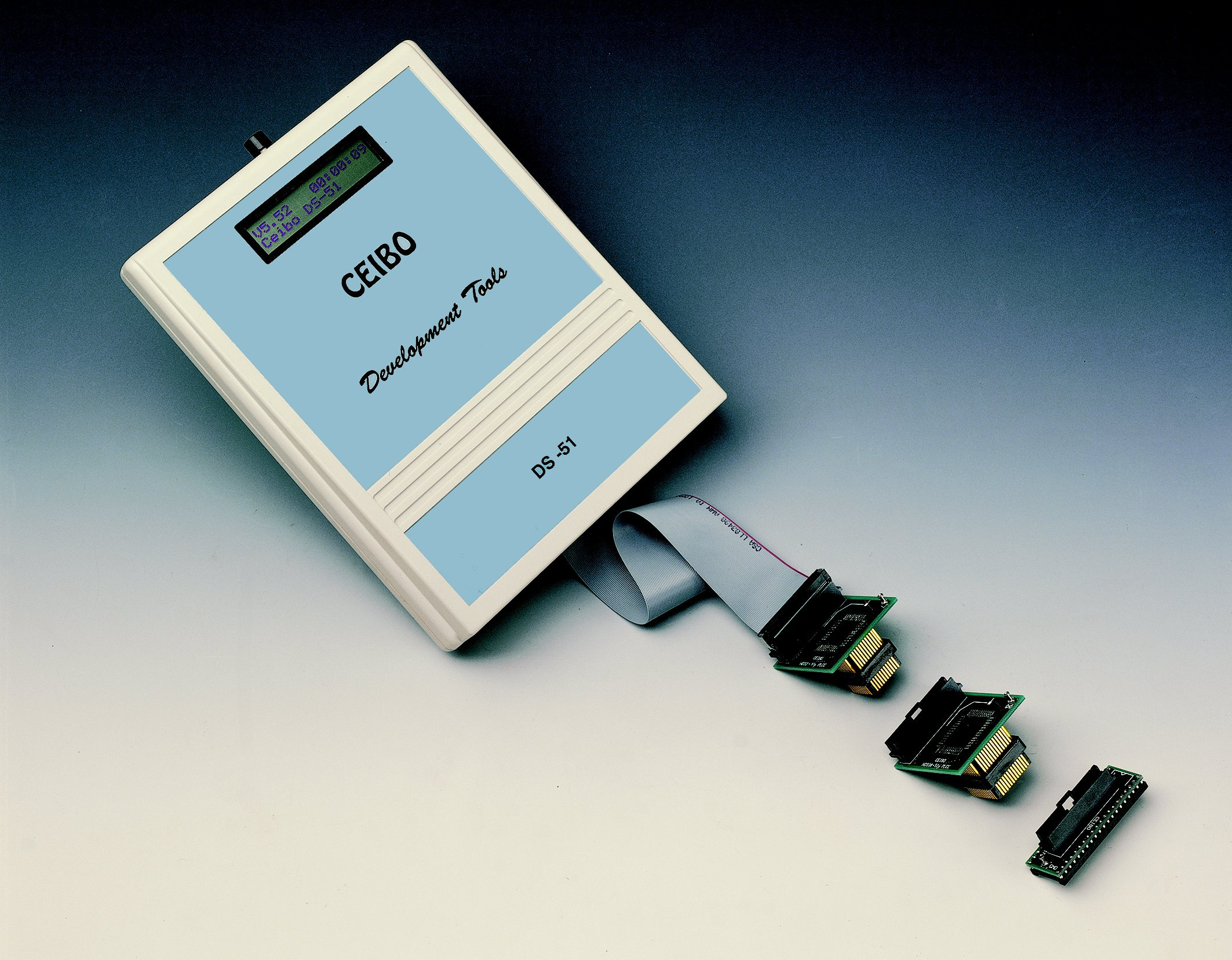 8051 Emulator, 8051 in-circuit emulator, produced by Ceibo